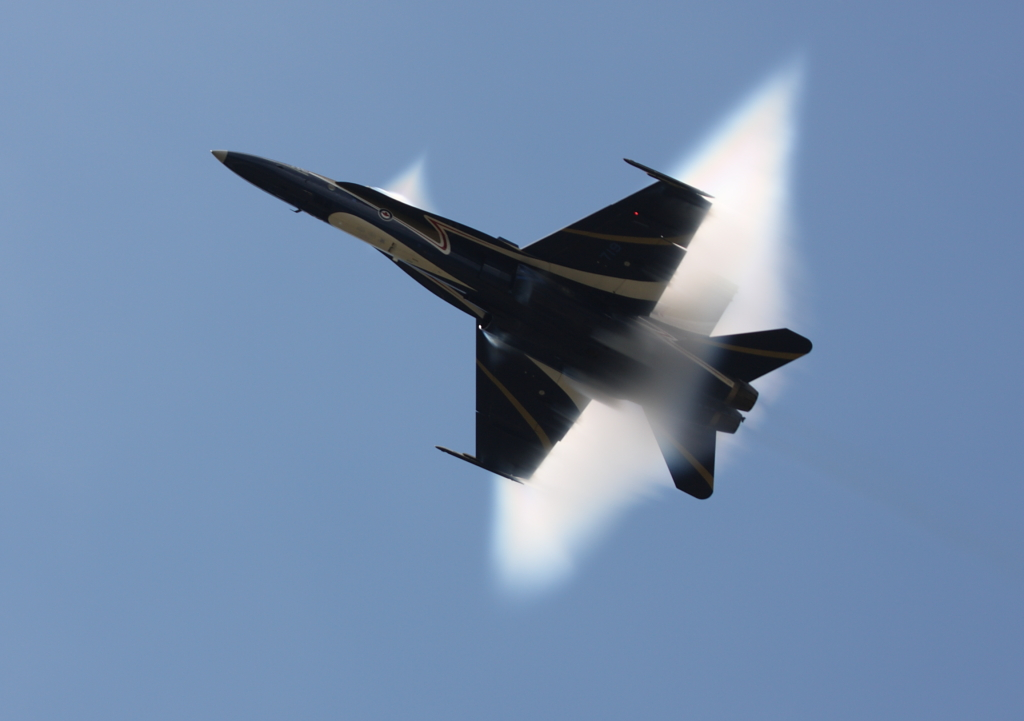 St. Thomas 2009